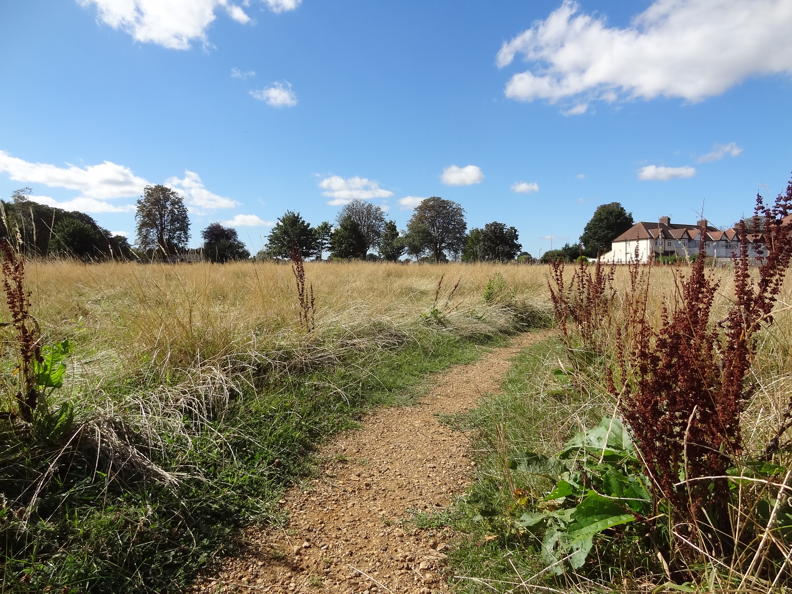 View of Sutton Common Park